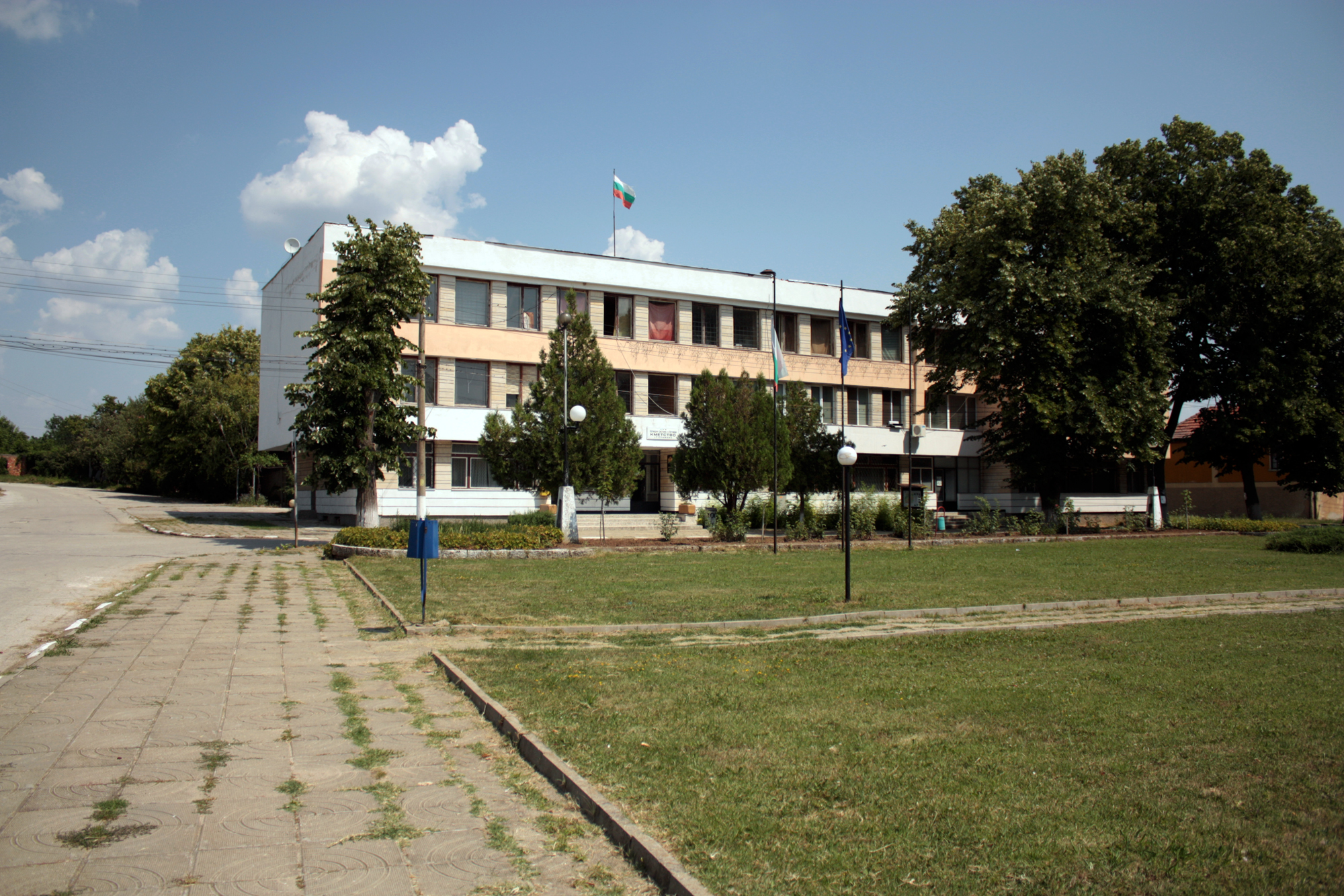 Municipal office in Grno Slivovo village, Bulgaria